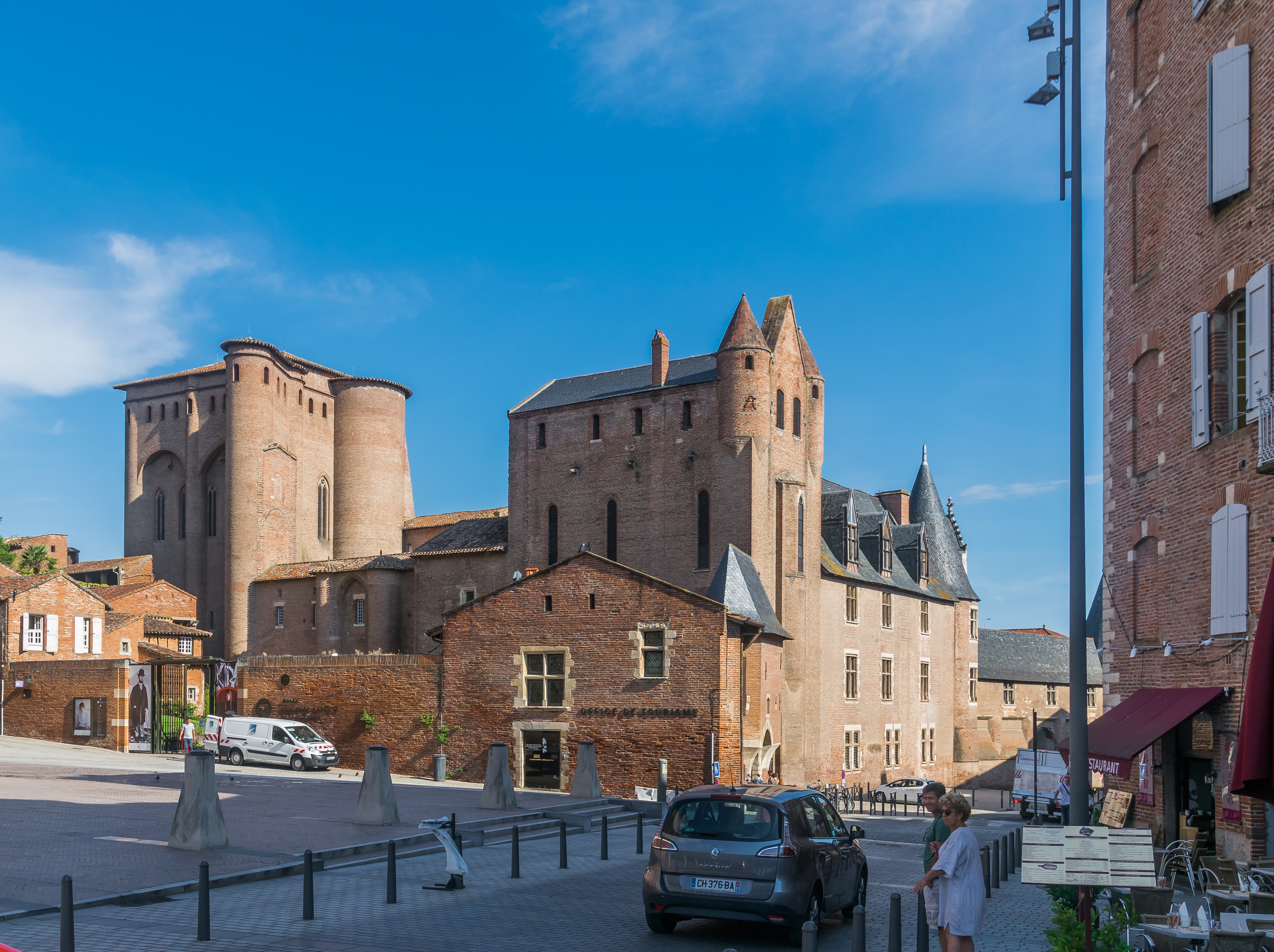 Palais de la Berbie in Albi, Tarn, France .